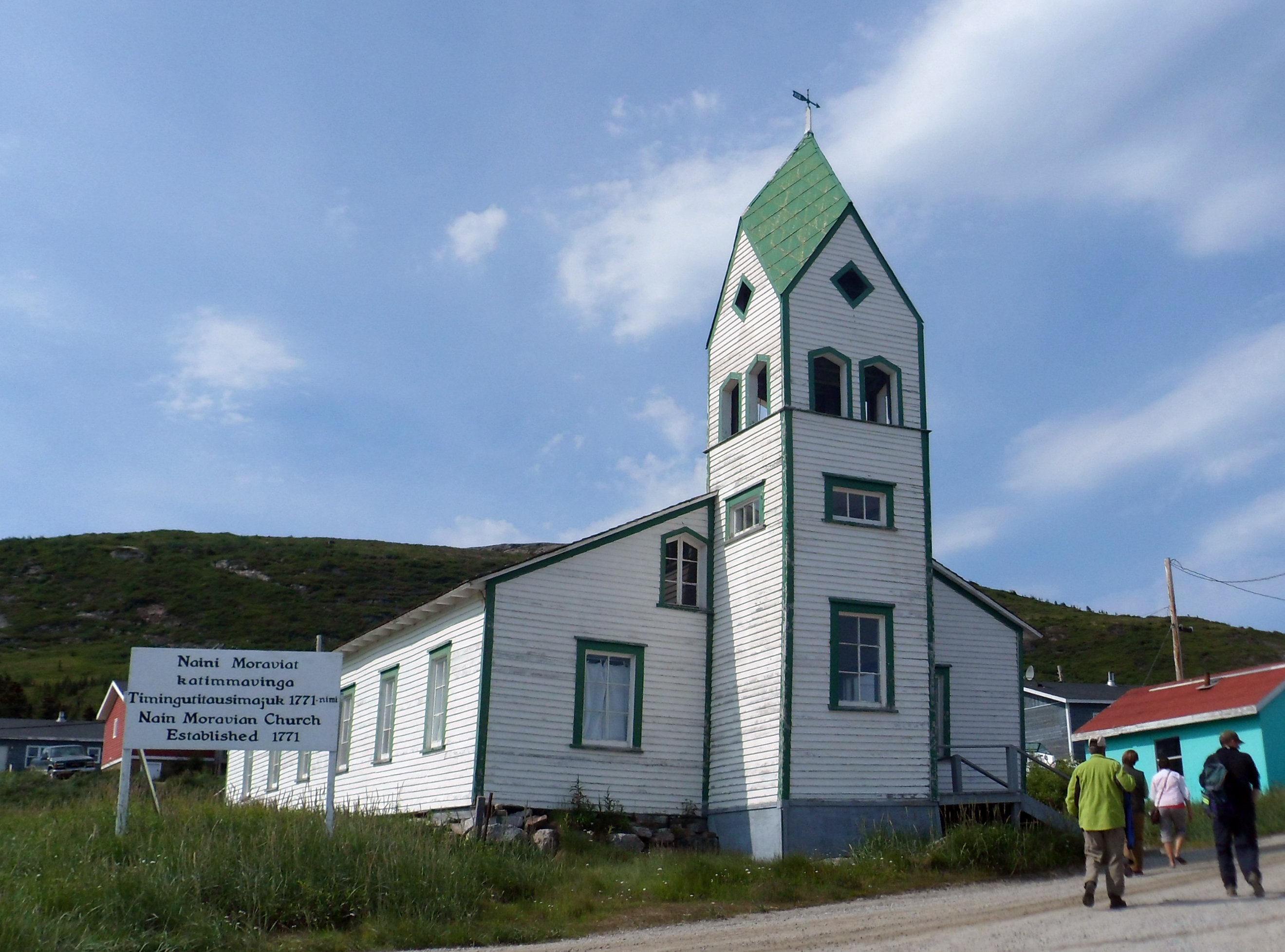 Moravian Church Registered Heritage Structure. It has a Rhomboid spire, also known as a Rhenish roof.